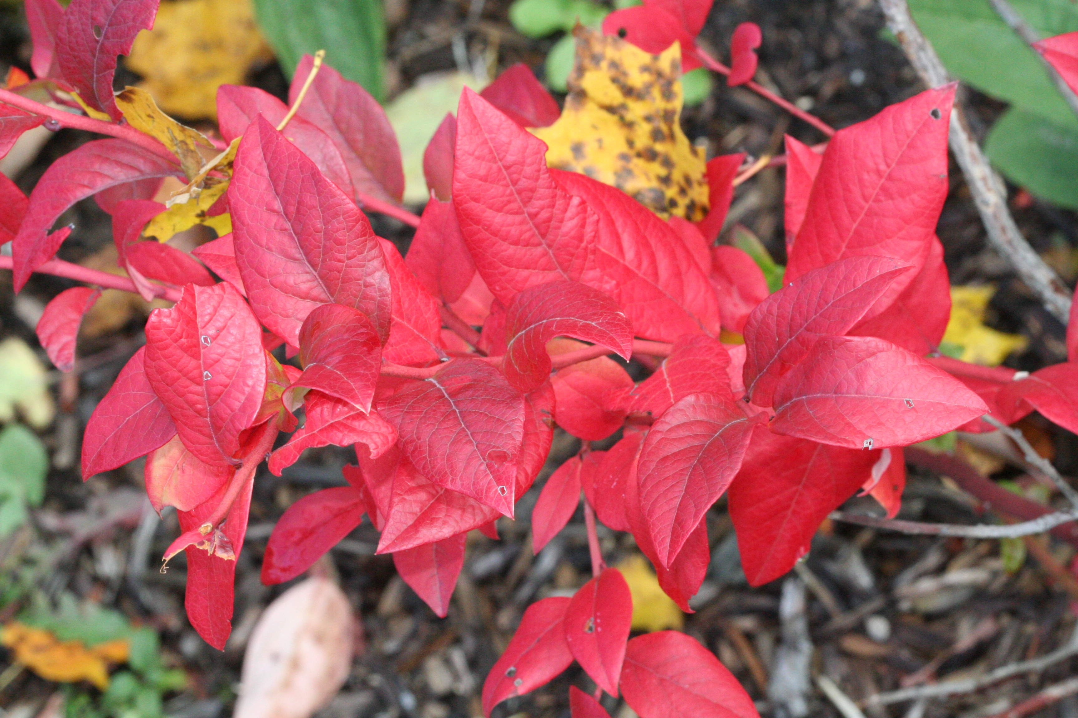 Vaccinium corymbosum (northern high-bush blueberry) photographed in the town of Skaneateles, Onondaga County, New York